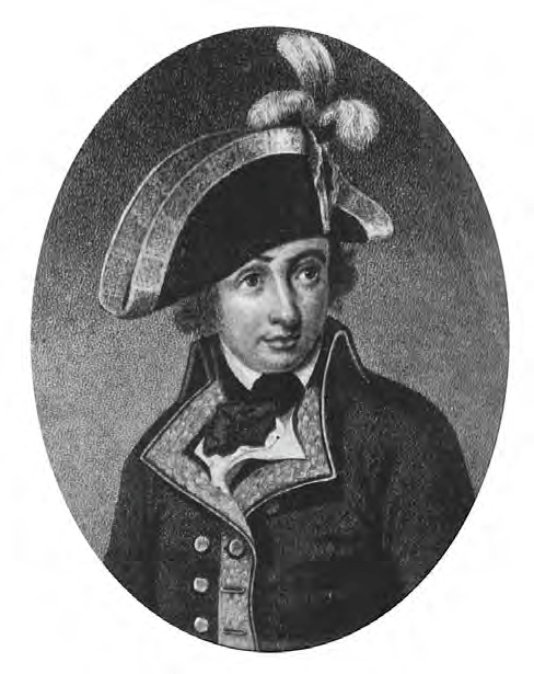 General Jean-Charles Pichegru. A distinguished French general of the Revolutionary Wars, he overran Belgium and Holland before fighting on the Rhine front. His subsequent involvement in a royalist conspiracy to remove Napoleon from power led to his arrest and death.